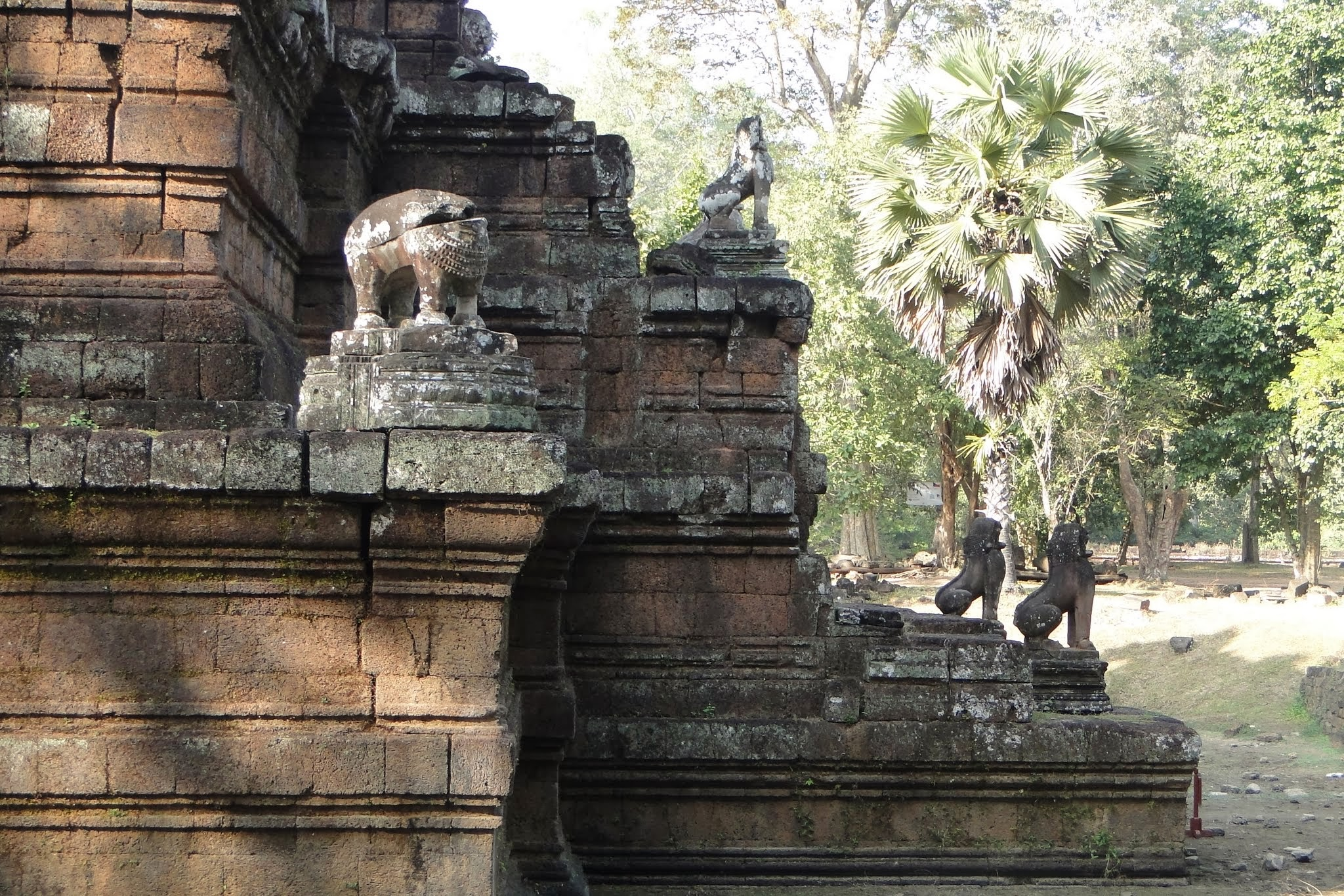 Phimeanakas. Detail